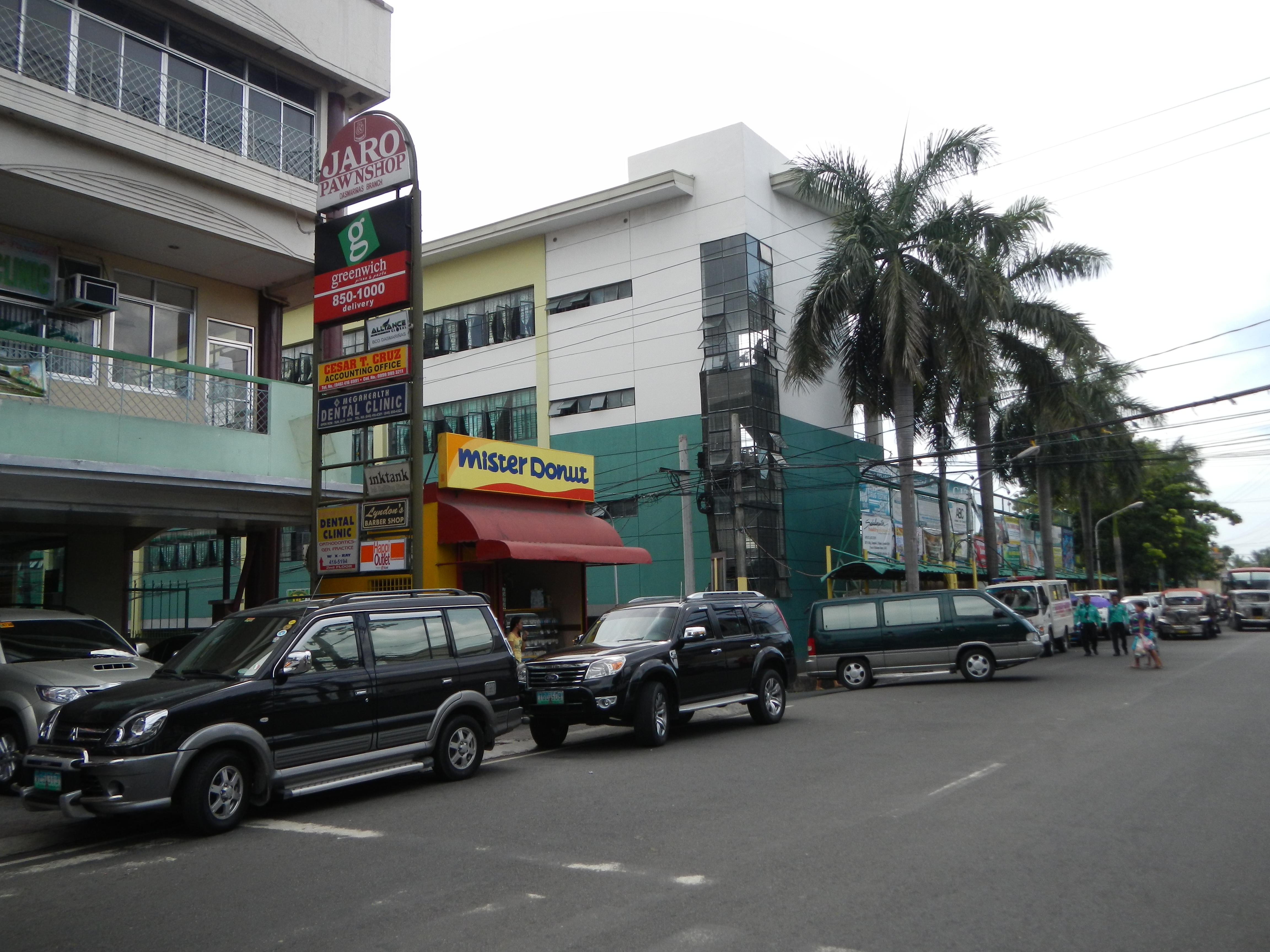 Dasmariñas [1] Website, officially the City of Dasmariñas (often shortened to Dasma; Filipino: Lungsod ng Dasmariñas) is the largest city, both in terms of area and population in the province of Cavite, Philippines. Website Immaculate Conception[2]---------[N.B. June 7, 1st Friday, 2013 Photography of - From Bulacan at 9:05 a.m., I took photo of Dasmariñas [3] City at 12:49 pm, the Aguinaldo Highway, then, at 3:35 pm, I took photo of Carmona, Cavite [4] - I finished San Lazaro Carmona Race Track, Carmona Welcome Arch and Binan Laguna Welcome Arch and Araneta Coliseum Quezon City at 8:31 p.m. and started uploading via slow internet next day June 8, 2013 at 6:59 pm - I hereby certify that these rarest, raw, original and unedited photos are exclusive for Commons and Wikipedia never uploaded in any Internet or any site, and for the public domain without any condition.]---------[N.B. June 7, 1st Friday, 2013 Photography of - From Bulacan at 9:05 a.m., I took photos of Dasmariñas [5] City at 12:49 pm, the Aguinaldo Highway, then, at 3:35 pm, I took photos of Carmona, Cavite [6] - I finished San Lazaro Carmona Race Track, Carmona Welcome Arch and Binan Laguna Welcome Arch and Araneta Coliseum Quezon City at 8:31 p.m. and started uploading via slow internet next day June 8, 2013 at 6:59 pm - I hereby certify that these rarest, raw, original and unedited photos are exclusive for Commons and Wikipedia never uploaded in any Internet or any site, and for the public domain without any condition.]